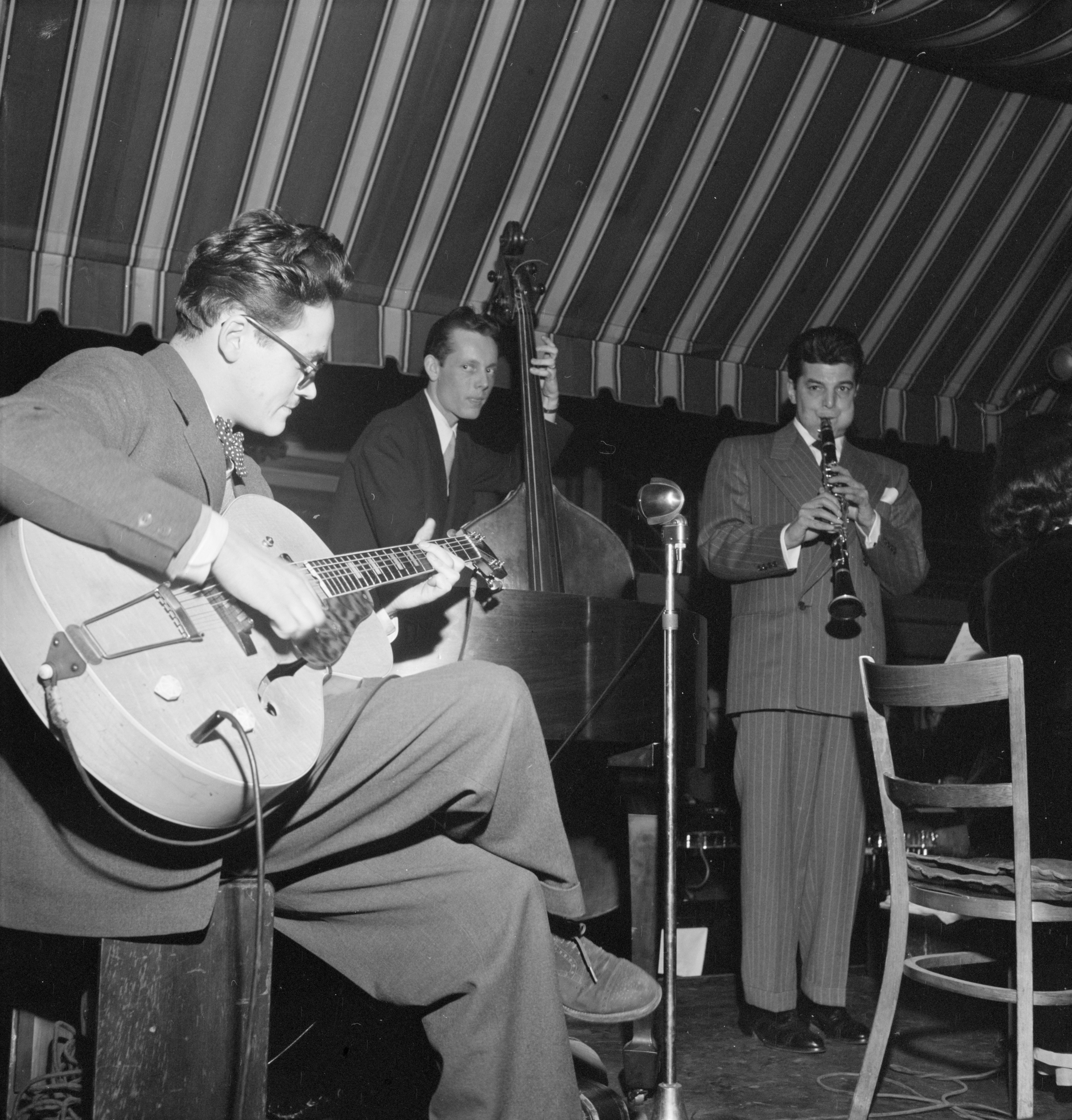 Gottlieb, William P., 1917-, photographer. [Portrait of Toots Thielemans and Joe Marsala, Hickory House, New York, N.Y., between 1946 and 1948] 1 negative : b&w ; 2 1/4 x 2 1/4 in. Notes: Gottlieb Collection Assignment No. 226 Reference print available in Music Division, Library of Congress. Purchase William P. Gottlieb Forms part of: William P. Gottlieb Collection (Library of Congress). Subjects: Thielemans, Toots Marsala, Joe, 1907-1978 Jazz musicians--1940-1950. Guitarists--1940-1950. Double bassists--1940-1950. Clarinetists--1940-1950. Fifty-second Street (New York, N.Y.)--1940-1950. Hickory House Format: Portrait photographs--1940-1950. Group portraits--1940-1950. Film negatives--1940-1950. Rights Info: Mr. Gottlieb has dedicated these works to the public domain, but rights of privacy and publicity may apply. Repository: (negative) Library of Congress, Prints & Photographs Division, Washington D.C. 20540 USA, (reference print) Library of Congress, Music Division, Washington D.C. 20540 USA, Part Of: William P. Gottlieb Collection (DLC) 99-401005 General information about the Gottlieb Collection is available at Persistent URL: Call Number: LC-GLB23- 0845